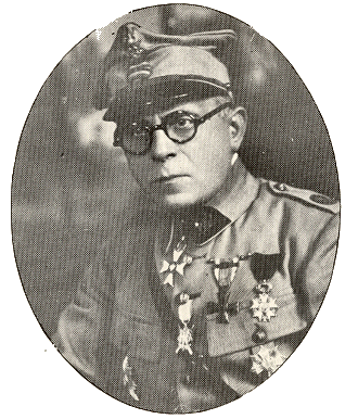 Teofil Starzynski - first chairman of Polish Army Veterans' Association in America